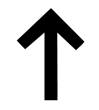 The Tiwaz rune.